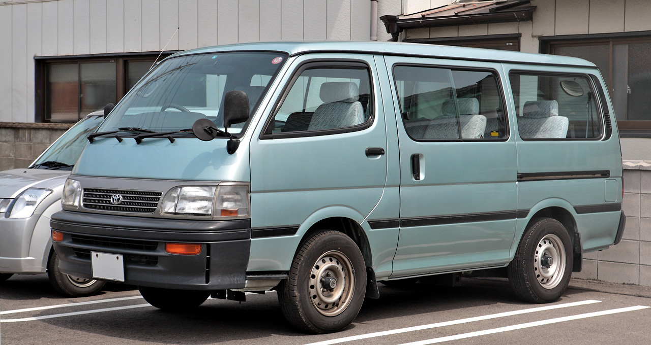 Toyota Hiace Wagon 3.0DT Custom ( KZH100G )